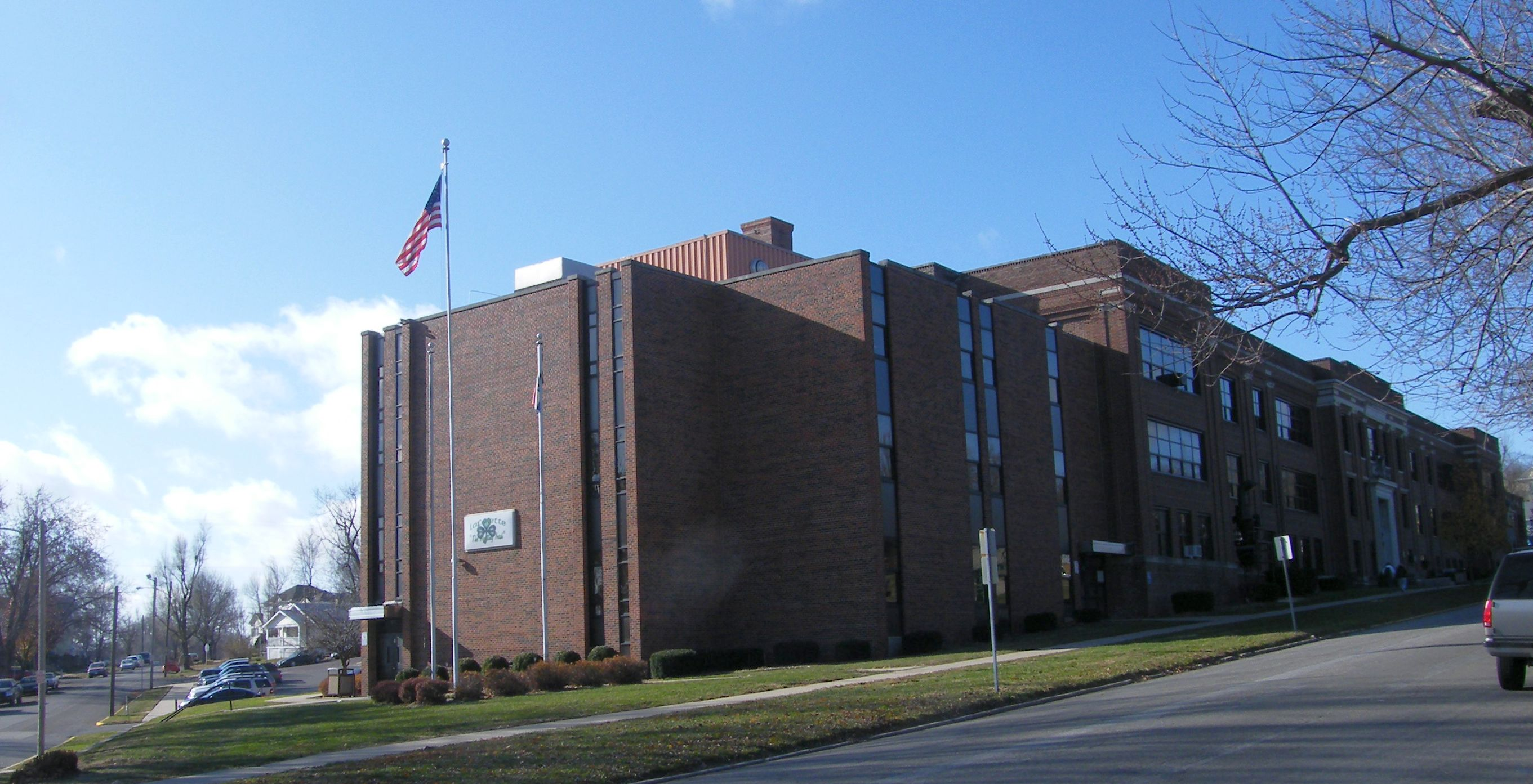 Lafayette High School (Saint Joseph)